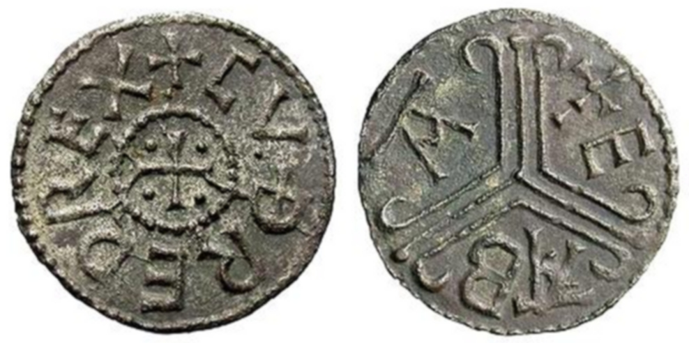 Coin of Cuthred, King of Kent in 798-807, minted 802-804 in Canterbury by Eaba, EMC number 2009.0264